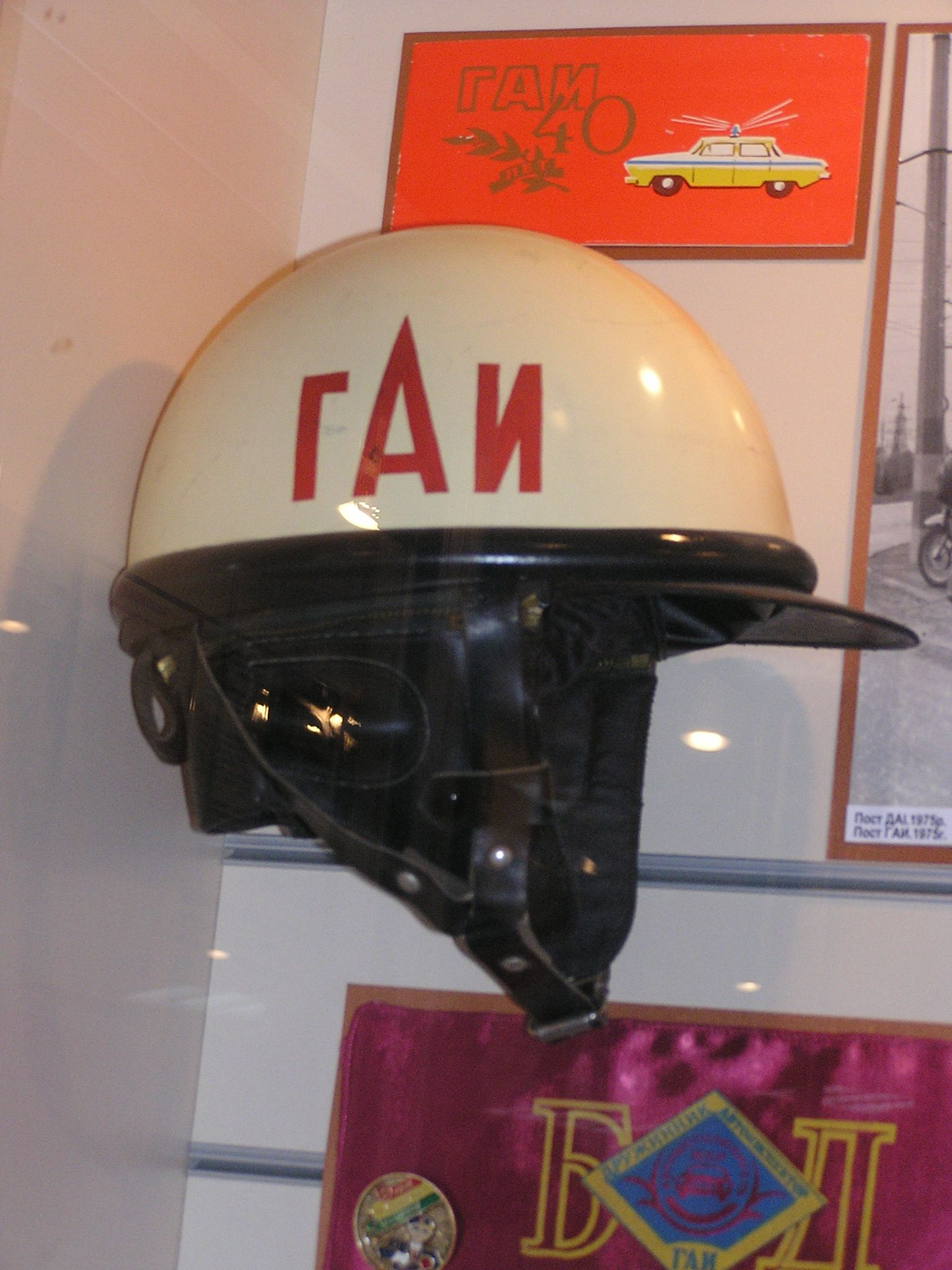 Museum of the History of Donetsk militsiya - GAI traffic police helmet